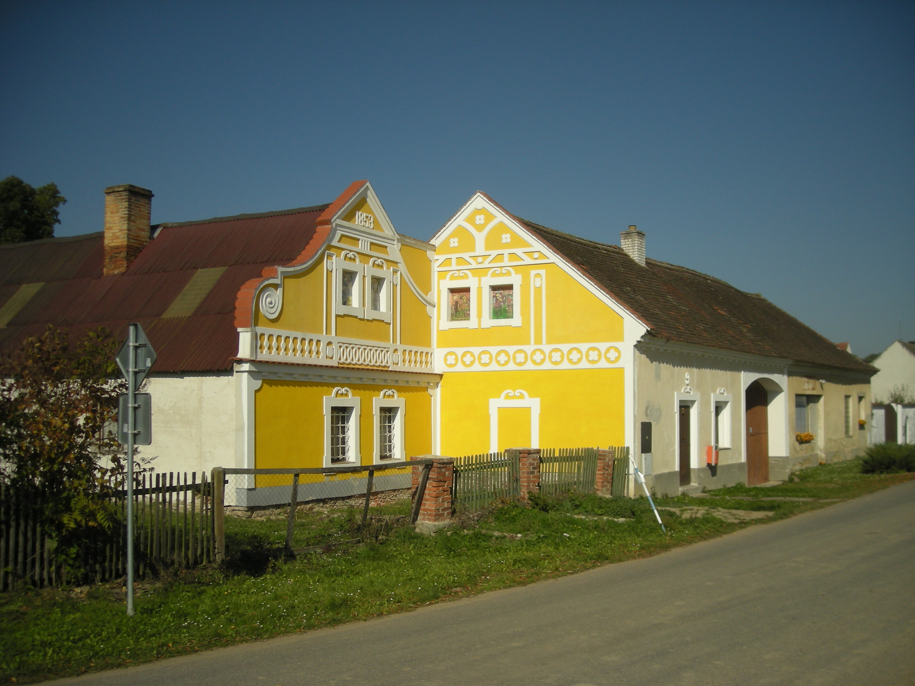 A traditional farmhouse in Radomilice, South Bohemian Region, Czech Republic. According to the owner, the left-hand part was built in 1853 - as written on the gable - while the right-hand part is more recent. The house has been recently renovated and false windows on the top decorated with replicas of 19th century paintings.